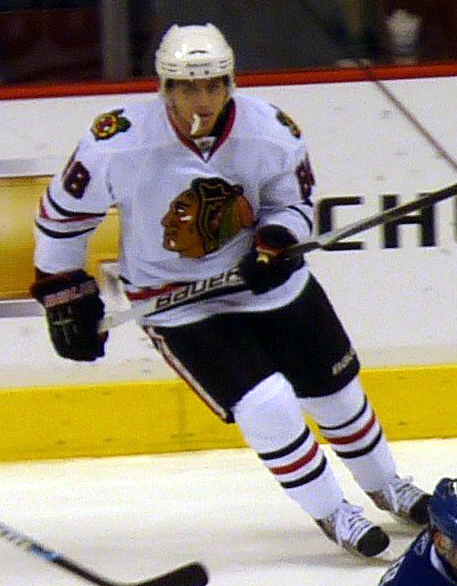 Chicago Blackhawks forward Patrick Kane in a game against the Vancouver Canucks at GM Place on November 22, 2009.